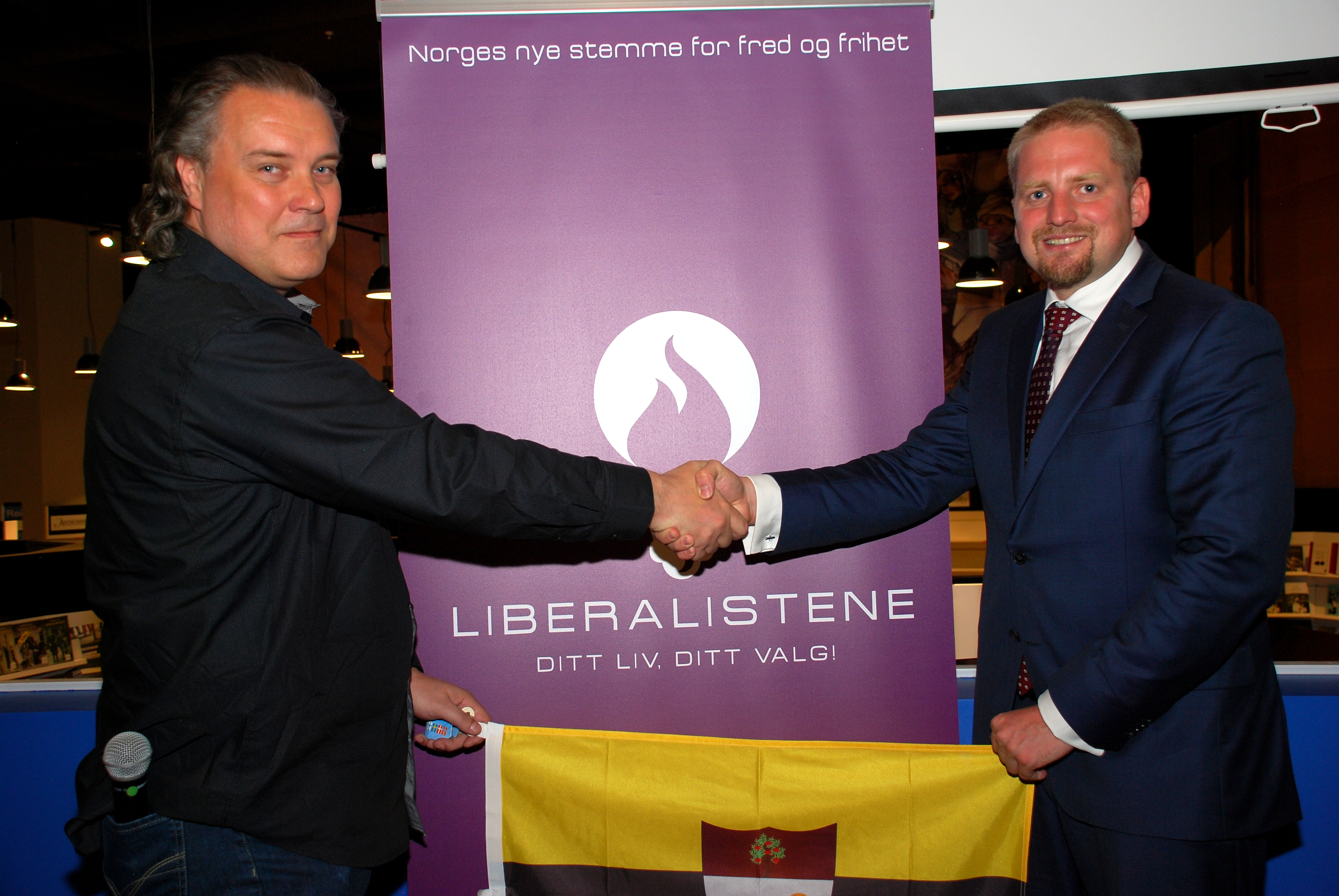 Roald Ribe og president av Liberland, Vít Jedlička. Photograph taken 2015 during an event of norwegian's Capitalist Party at "Eldorado" bookstore in Oslo.